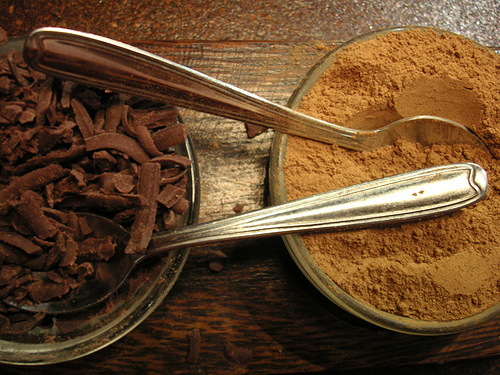 Chocolate and cinnamon as part of the Uruguayan cuisine.